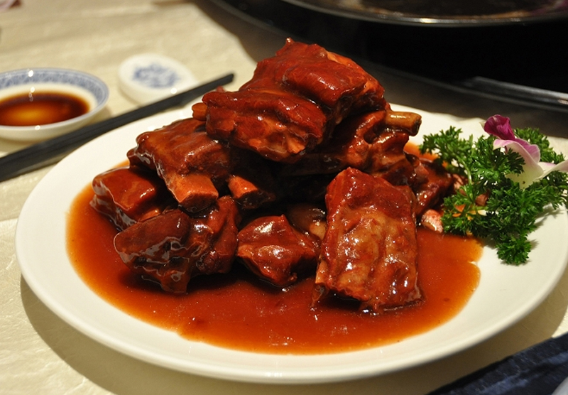 Spareribs sauce is one of the local specialties of Wuxi.